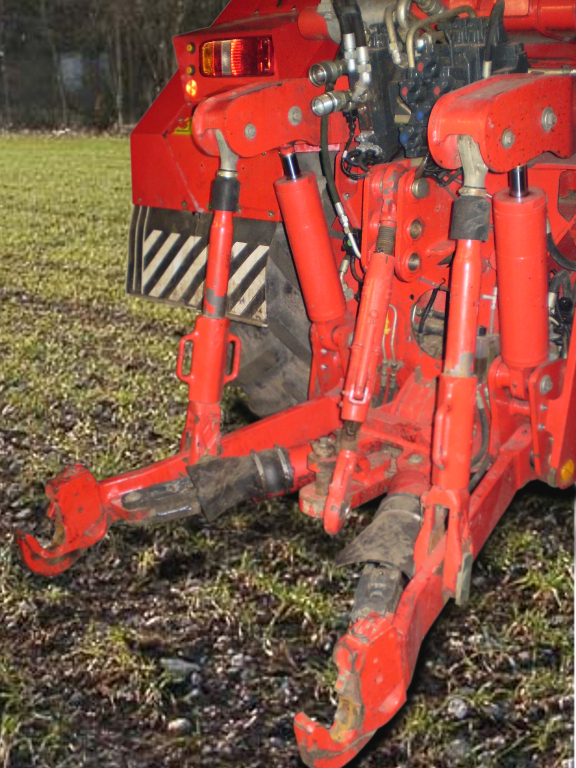 Three-point hitch of a system-tractor (HOLMER Terra Variant)